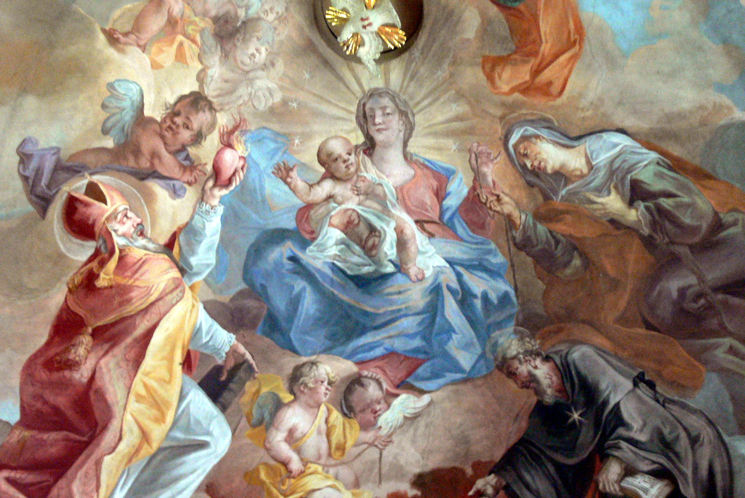 St. Ulrich am Pillersee parish church - Baroque fresco ( 1749 ) by Simon Benedikt Faistenberger: Virgin Mary gives a black penitence belt to Saint Augustine and his mother Saint Monica.